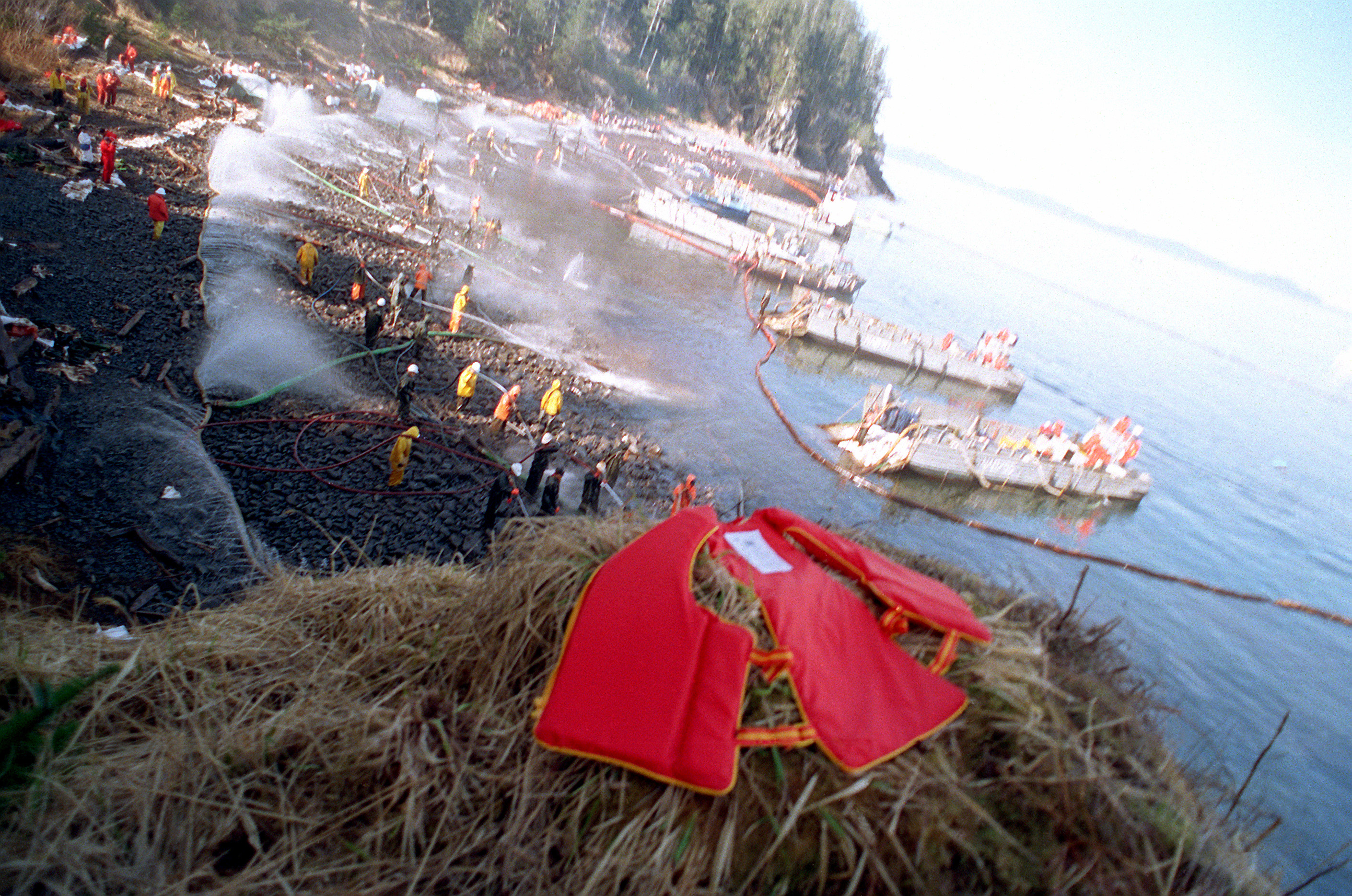 U.S. Navy Mechanized Landing Craft (LCMs) are anchored along the shoreline as Navy and civilian personnel position hoses during oil clean-up efforts on Smith island. The massive oil spill occurred when the commercial tanker Exxon Valdez ran aground while transiting the waters of Prince William Sound on March 24th.